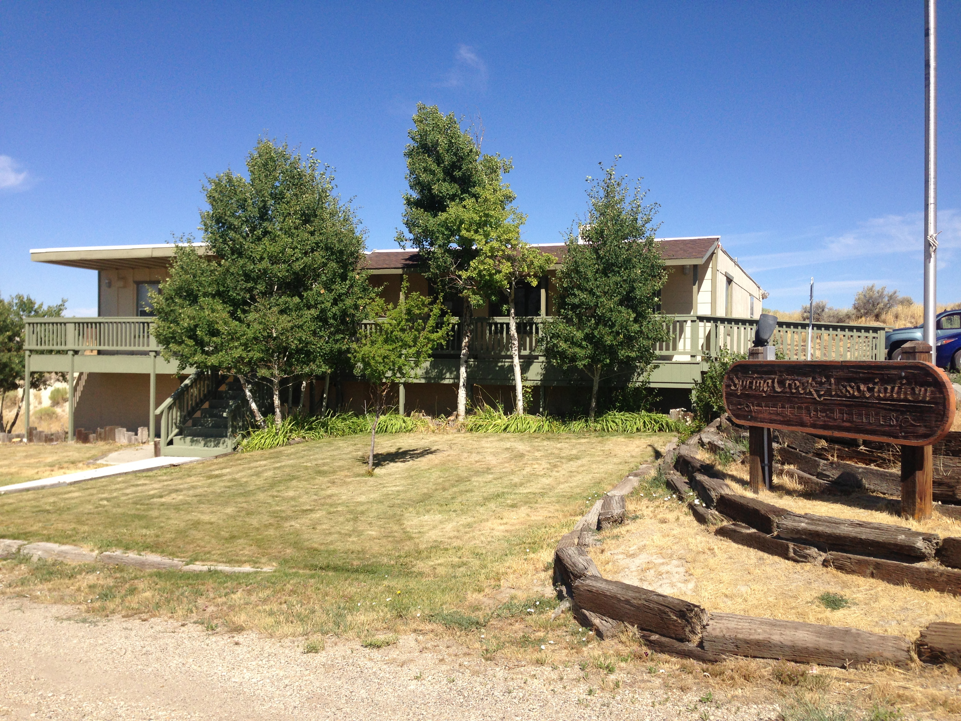 Spring Creek Homeowners Association Executive Offices in Spring Creek, Nevada